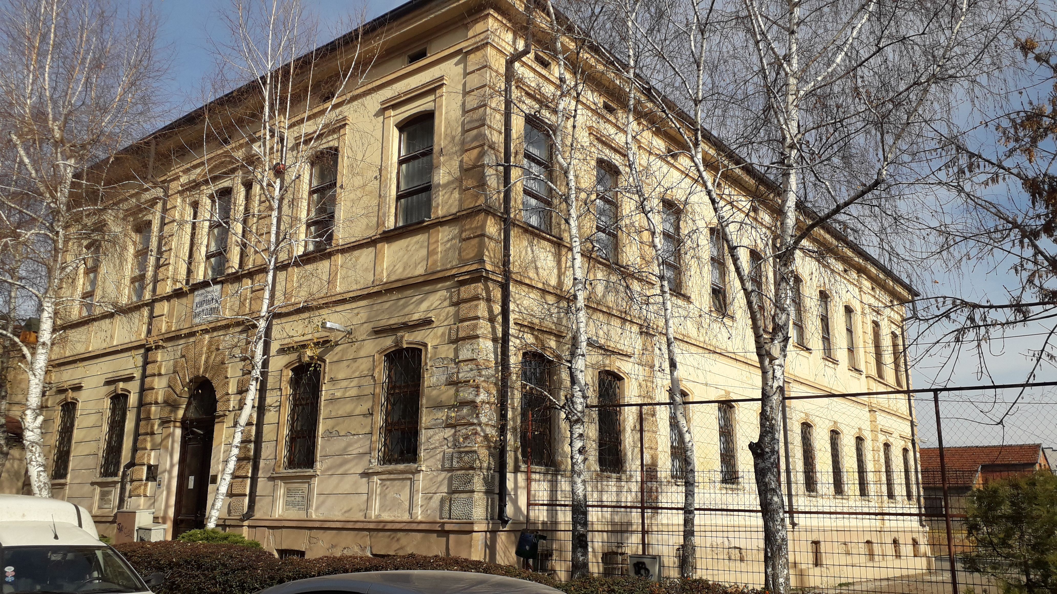 St. Kiril and Methodius Bitolya2